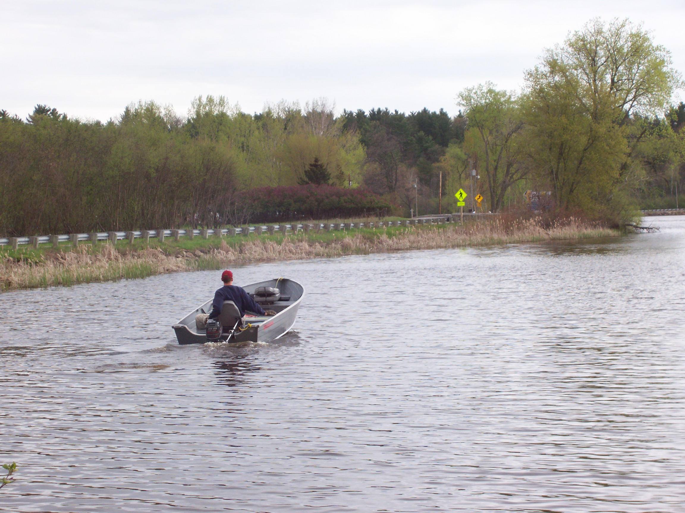 Boating on the Wisconsin River on the county line between Wood County, Wisconsin / Adams County, Wisconsin, USA.